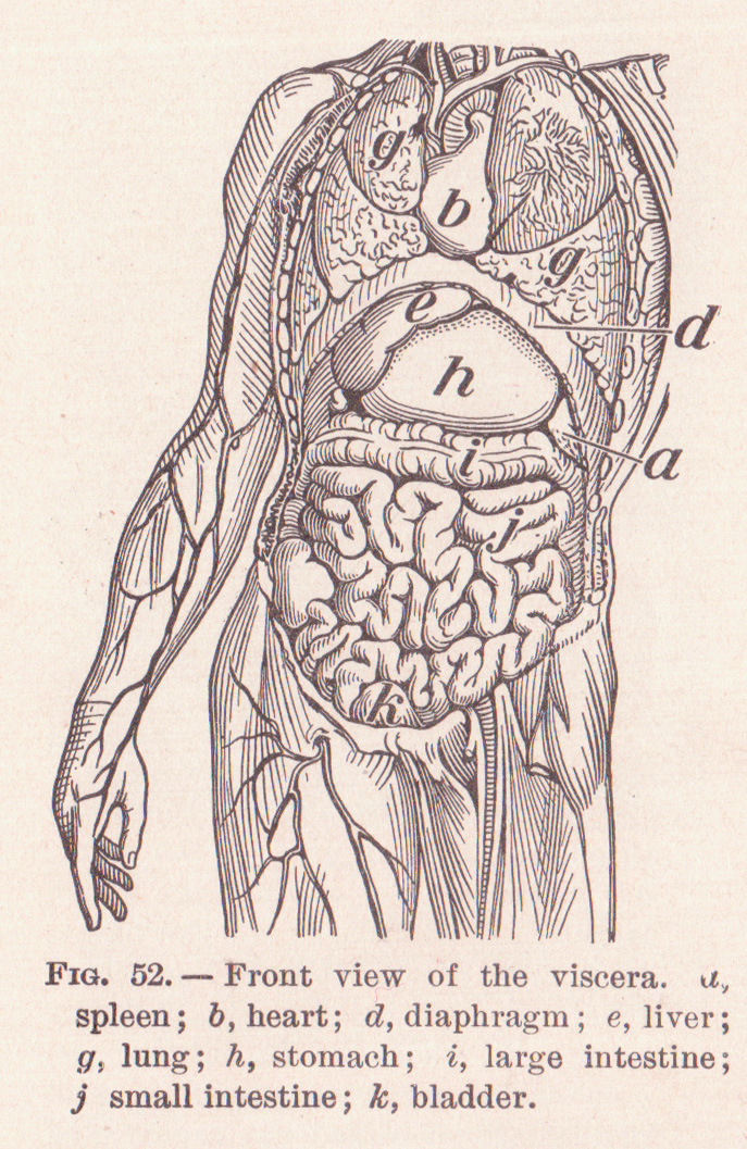 From the book, "The Human Body and Health Revised" by Alvin Davison, published in 1908 by Alvin Davison. This book has a copyright of 1908 by Alvin Davison and one in 1924 by American Book Company. The first copyright was pre-1923 and the copyright was never renewed; therefore, the book should be in the public domain Flickr data on 2011-08-17: Tags: vintage, book, medical, image, illustration, drawing, public domain, copyright free License: CC BY 2.0 User: perpetualplum Sue Clark